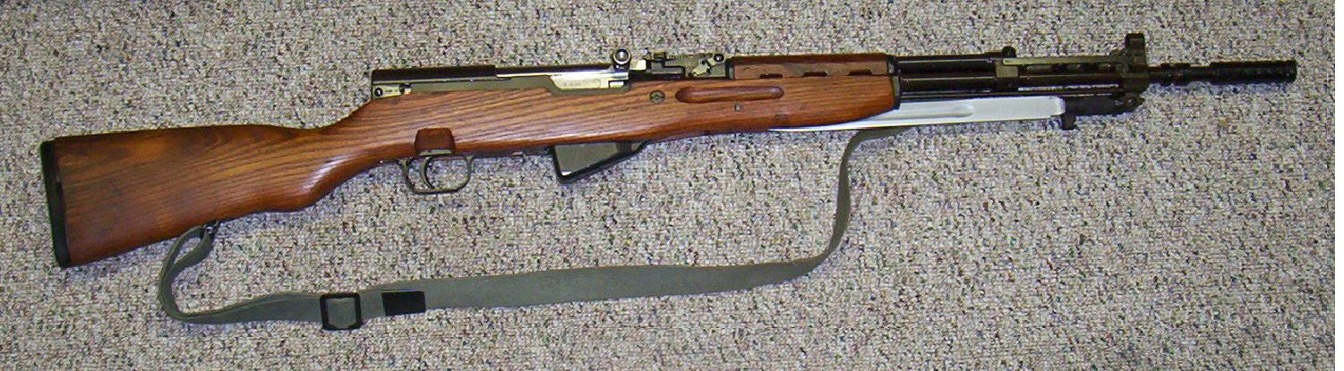 Yugoslavian M59/66 with the muzzle formed into a spigot-type grenade launcher and a folding ladder grenade sight behind the front sight.